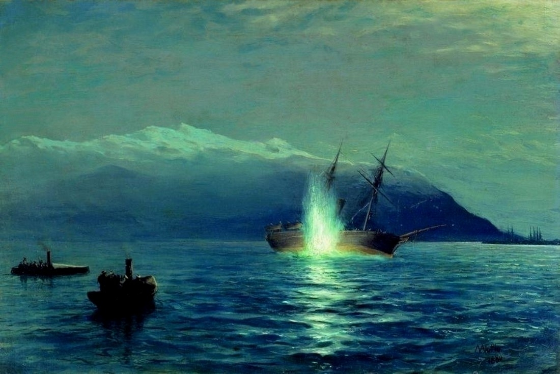 The sinking of the Turkish steamer «Intibakh» on the Batum roadstead by the torpedo boats of the steamship «Grand Duke Constantine» on the night of 14 January 1878